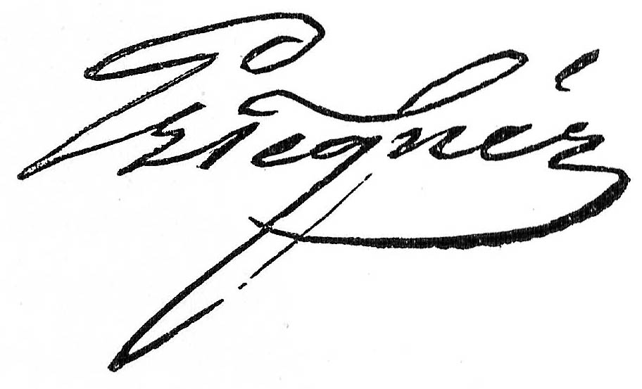 The signature of Esaias Tegnér, (1782-1846), swedish writer, professor of Greek language, and bishop.